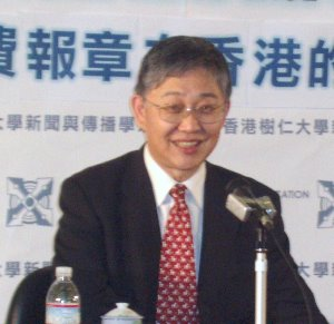 Mr Shih Wing Ching at General Assembly of Journalism & Communication Department, Hong Kong Shue Yan University